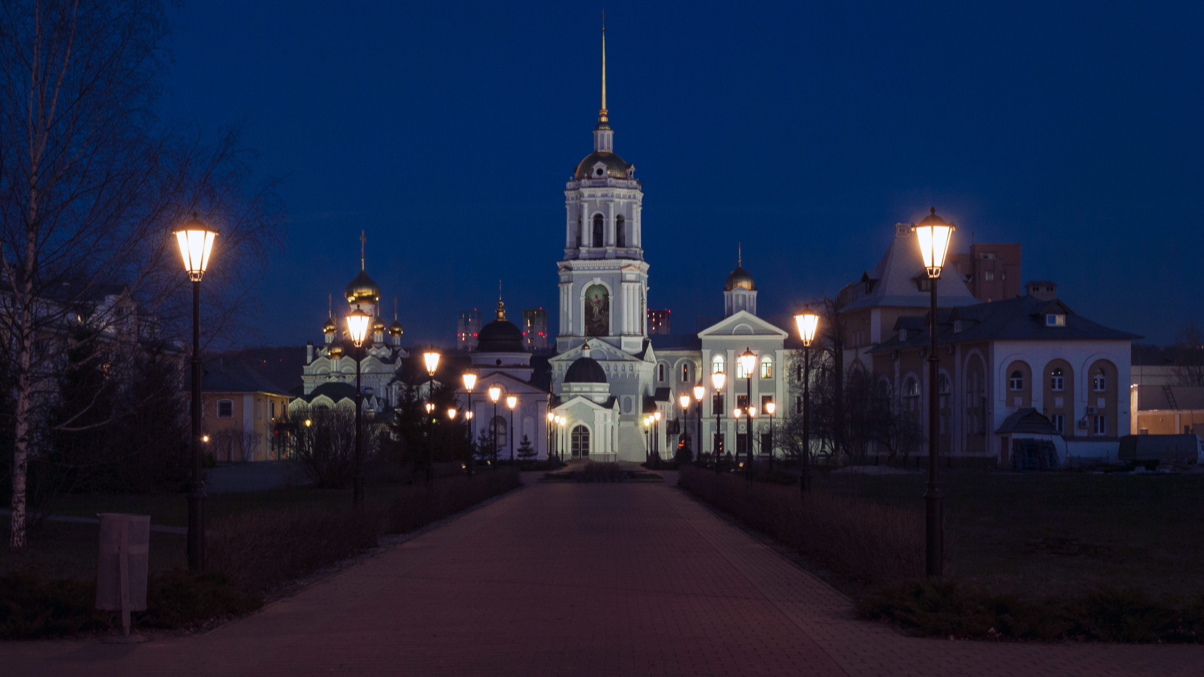 Transfiguration (Karpovskaya) Church in Nizhny Novgorod